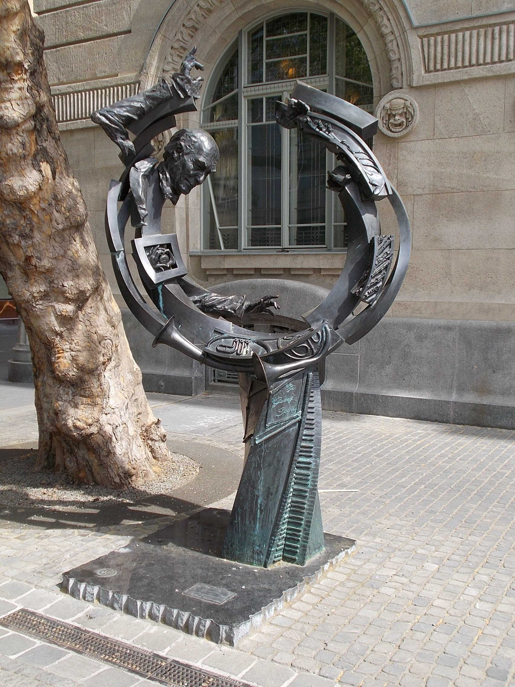 Sculpture at the Liszt Academy. - Liszt Ferenc Square, Budapest District VI., Hungary.